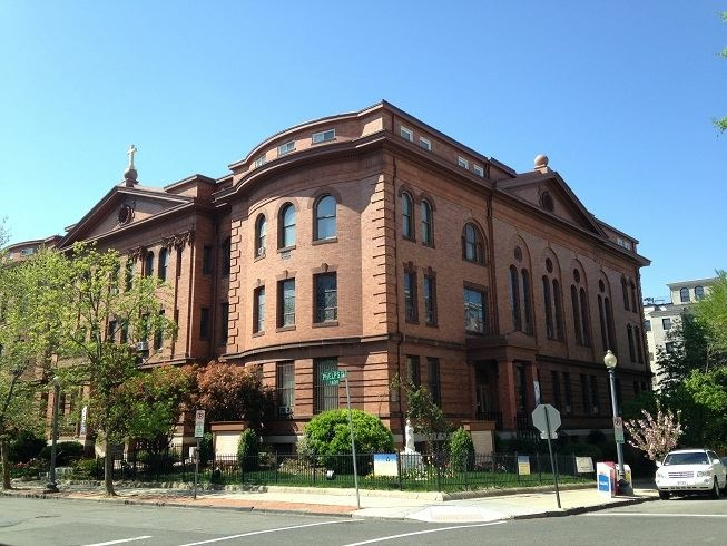 OLQADC